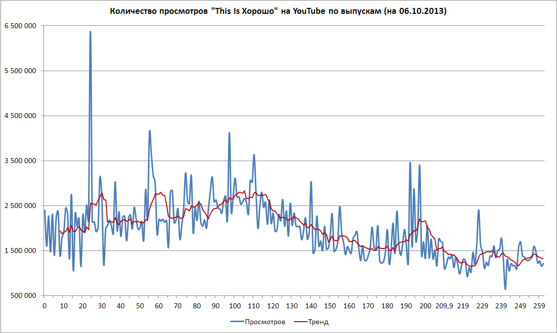 Number of views of "This Is Horosho"-shows' episodes on October, 6th 2013. Blue line shows number of views of an episode. Red trend-line is a linear filter of the previous (using nine points).